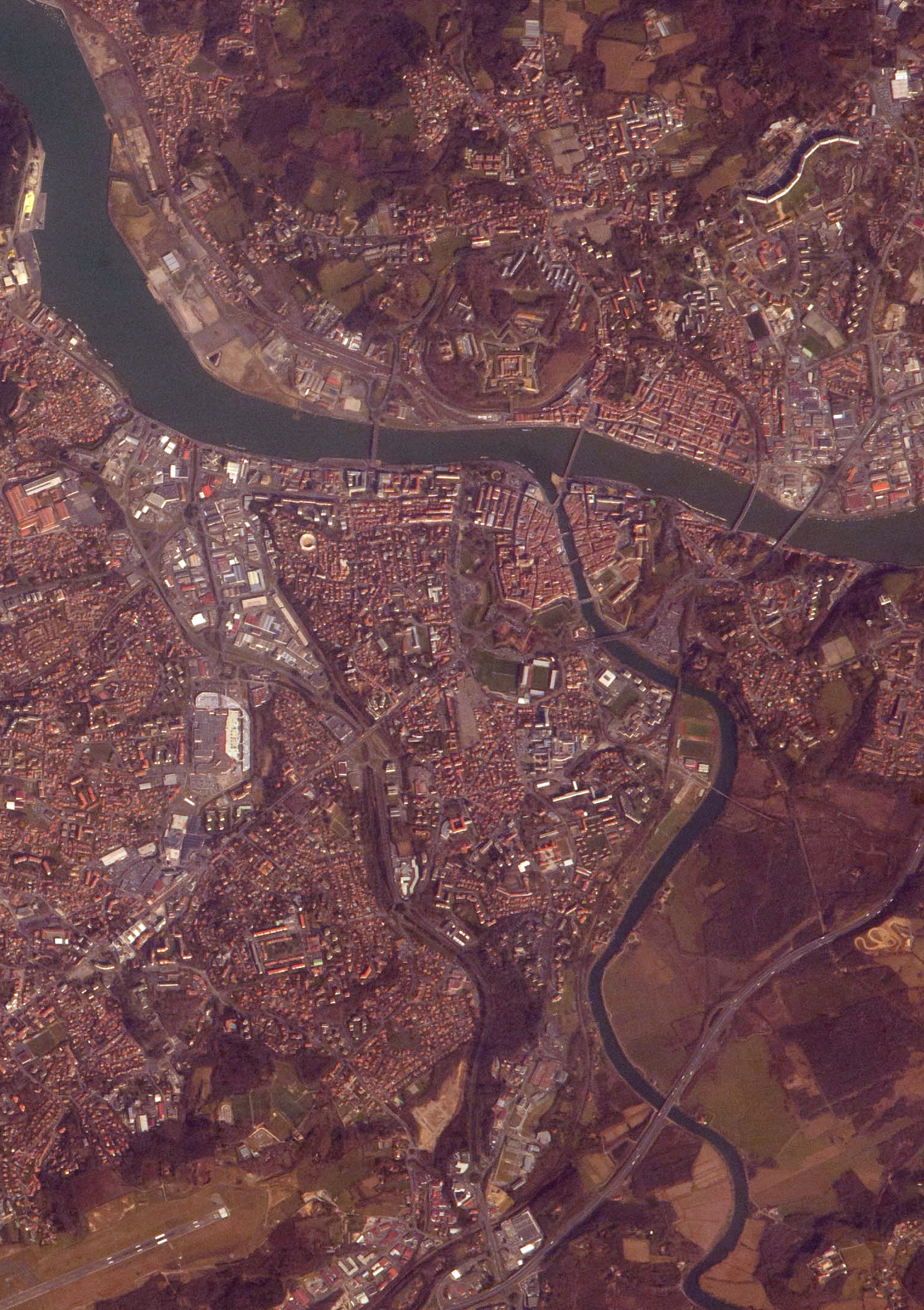 Bayonne-Baiona, Labourd-Lapurdi, Basque Country.